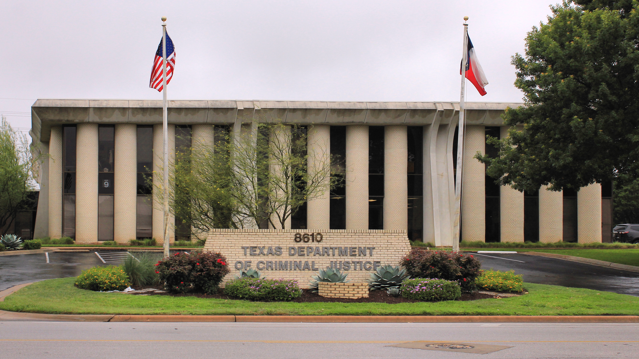 Texas Department of Criminal Justice offices in Austin, Texas, United States. - 8610 Shoal Creek Blvd. Austin, TX 78757